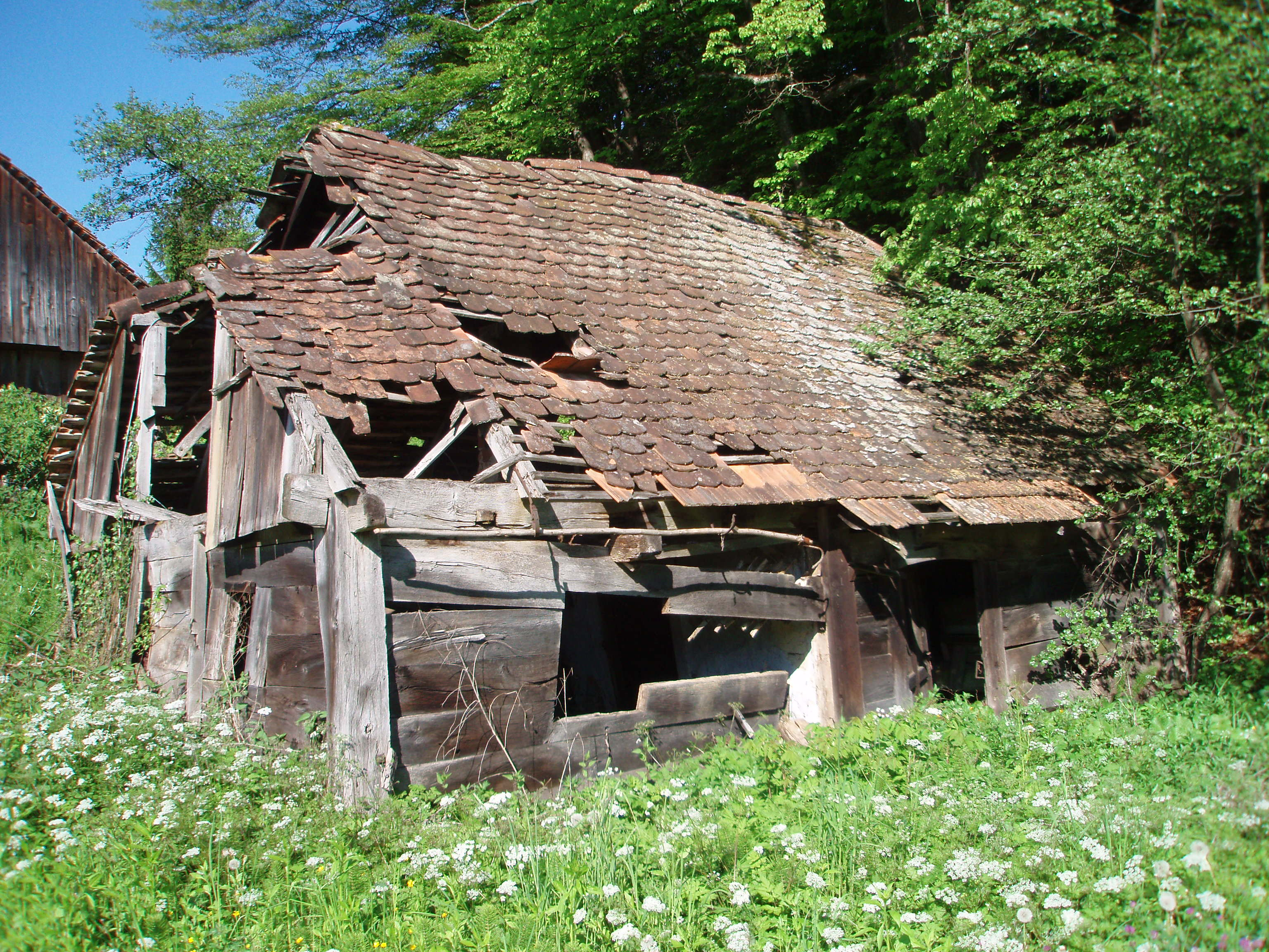 Agrež' Mill